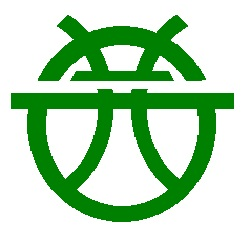 Geisei Kochi chapter